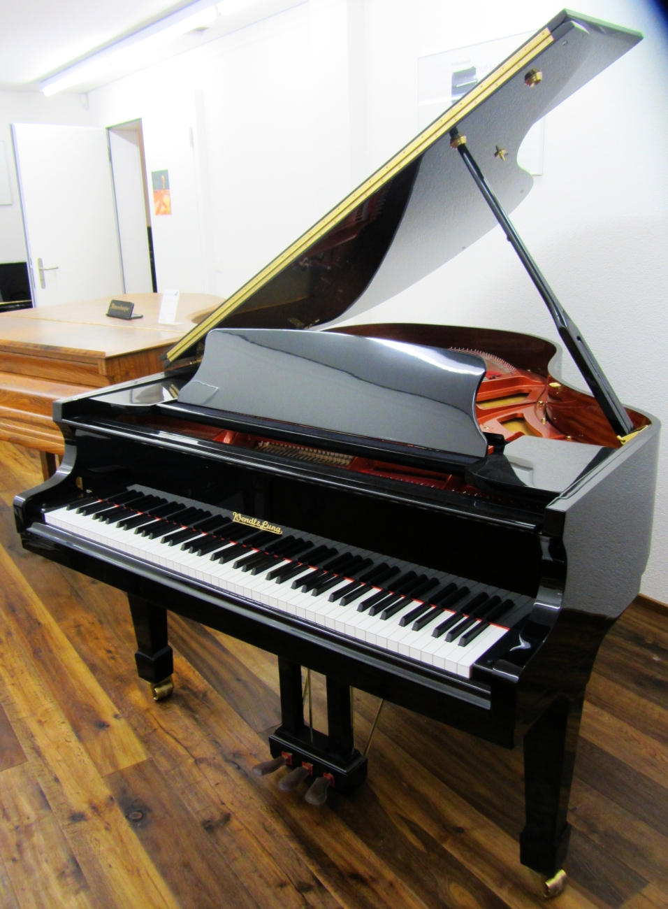 Wendl & Lung Grand Piano, Model Professional II, 178